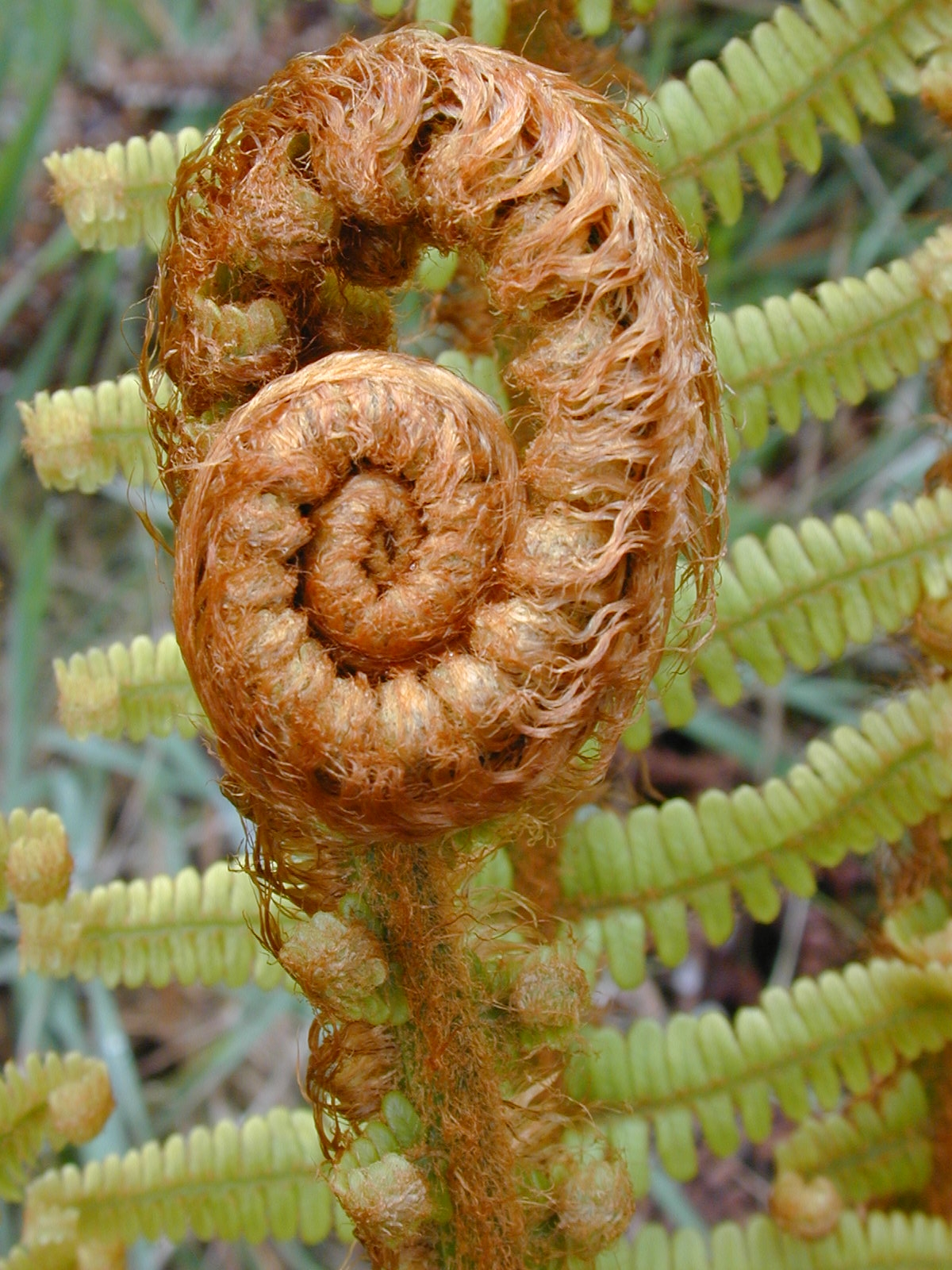 Dryopteris wallichiana (fiddle head). Location: Maui, Polipoli